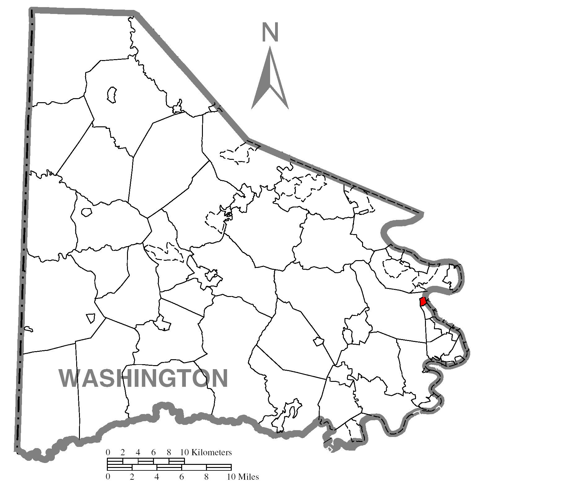 Map of Washington County higlighting North Charleroi.